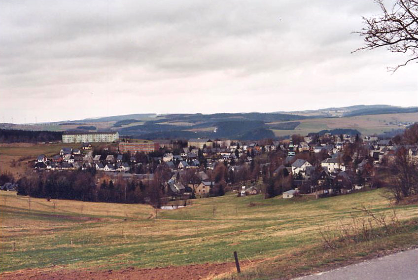 This image shows Seiffen in the Ore Mountains in Saxony, Germany.